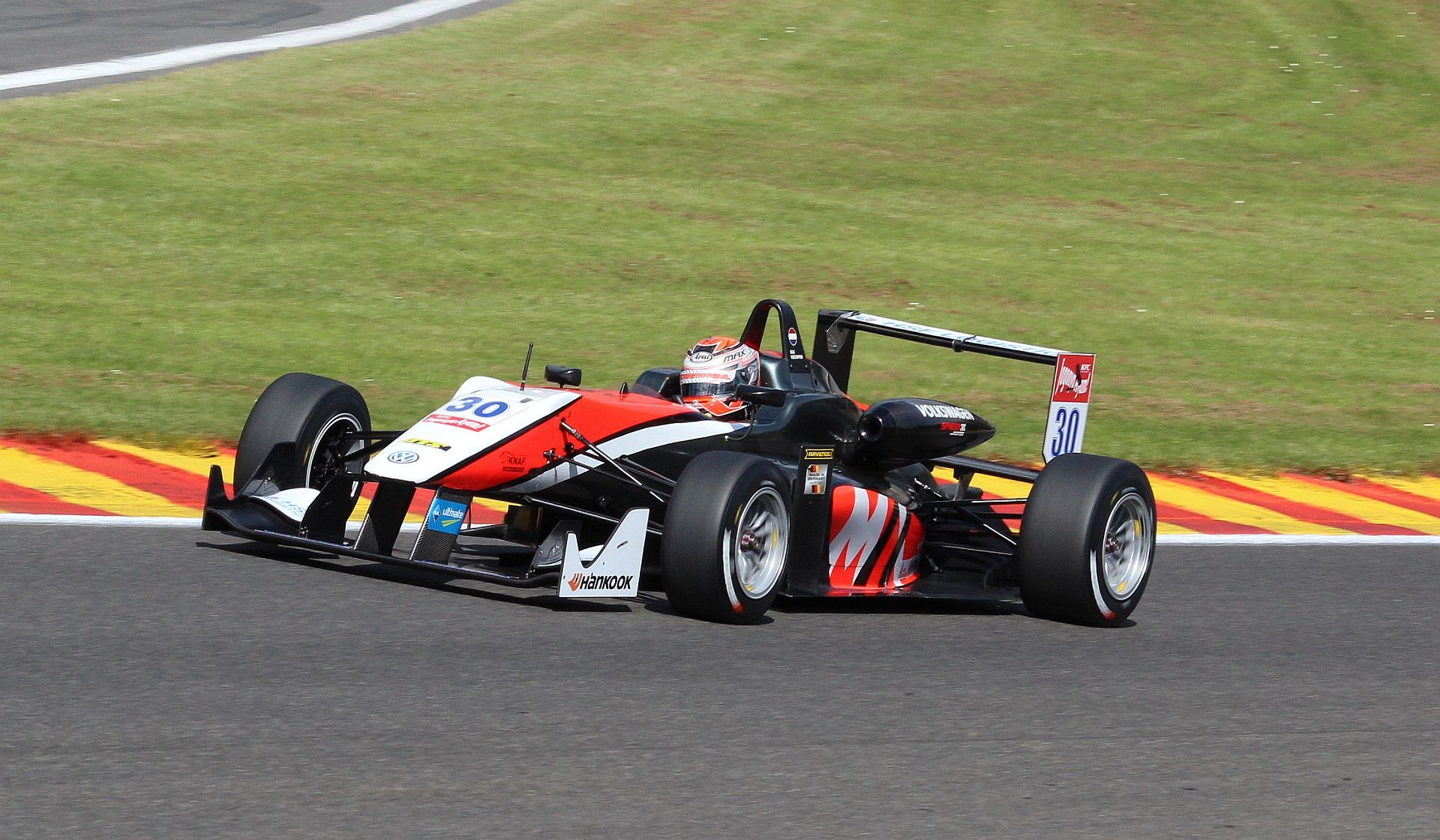 Max Verstappen at Spa in 2014, European Formula 3 Championship